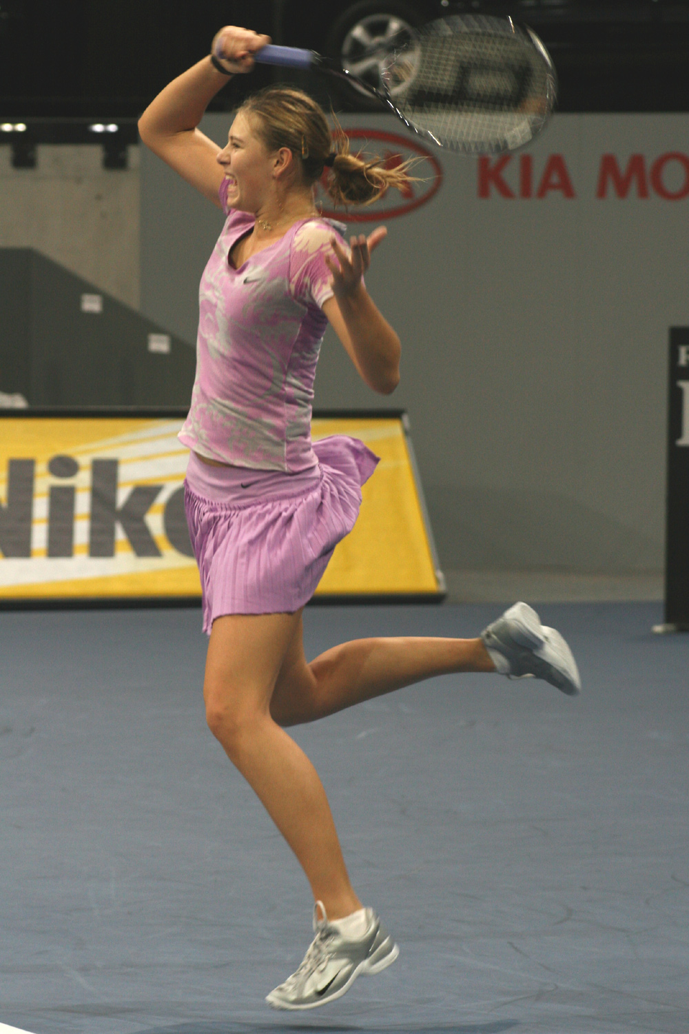 Maria Sharapova am Zurich Open 2006